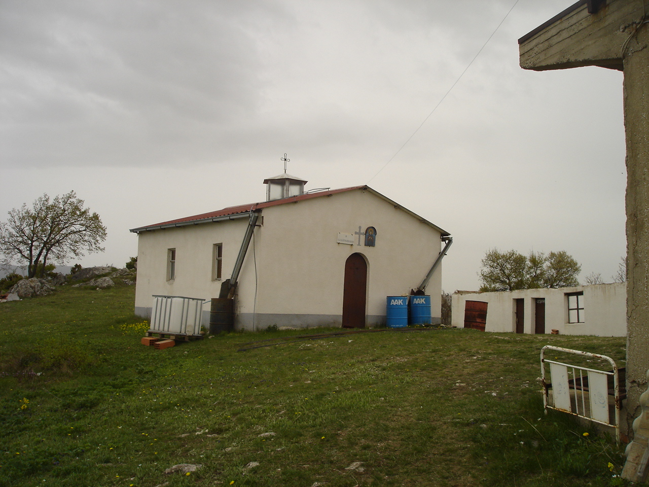 Monastery St. Panteleymon in Mariovo, Macedonia